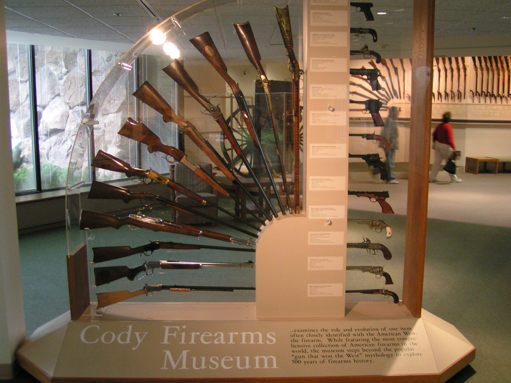 Main Entrance to the Cody Firearms Museum